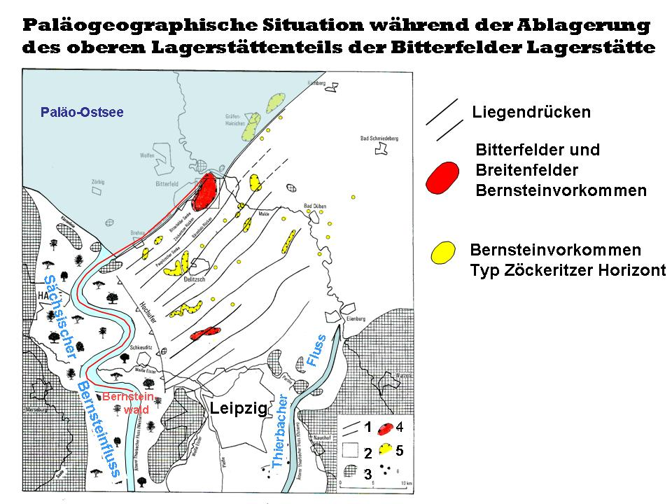 Amber from Bitterfeld